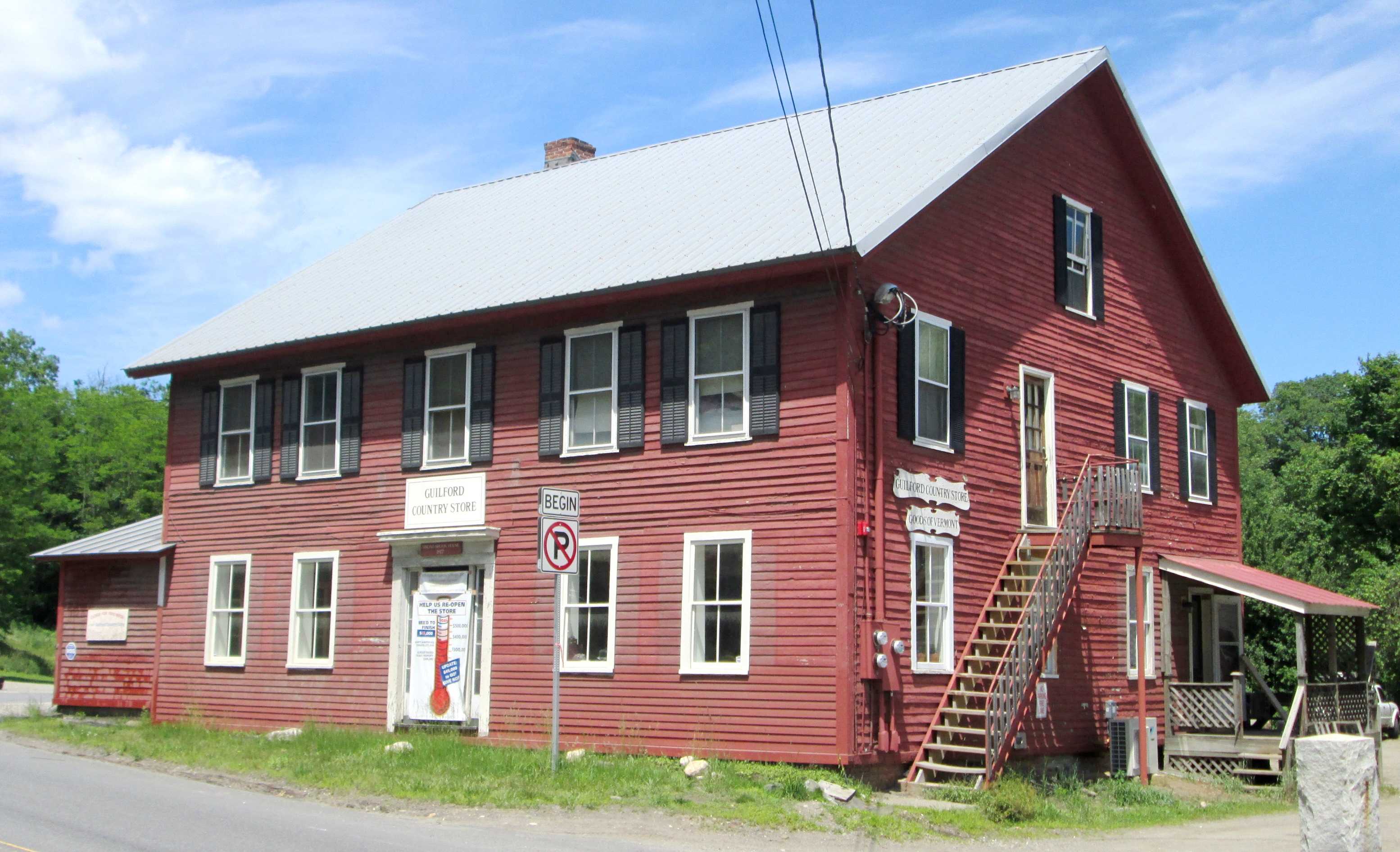 The Guilford Country Store, located in the historic Broad Brook House at the intersection of Calvin Coolidge Memorial Highway (U.S. Route 5) and Guilford Center Road in Guilford, Vermont.